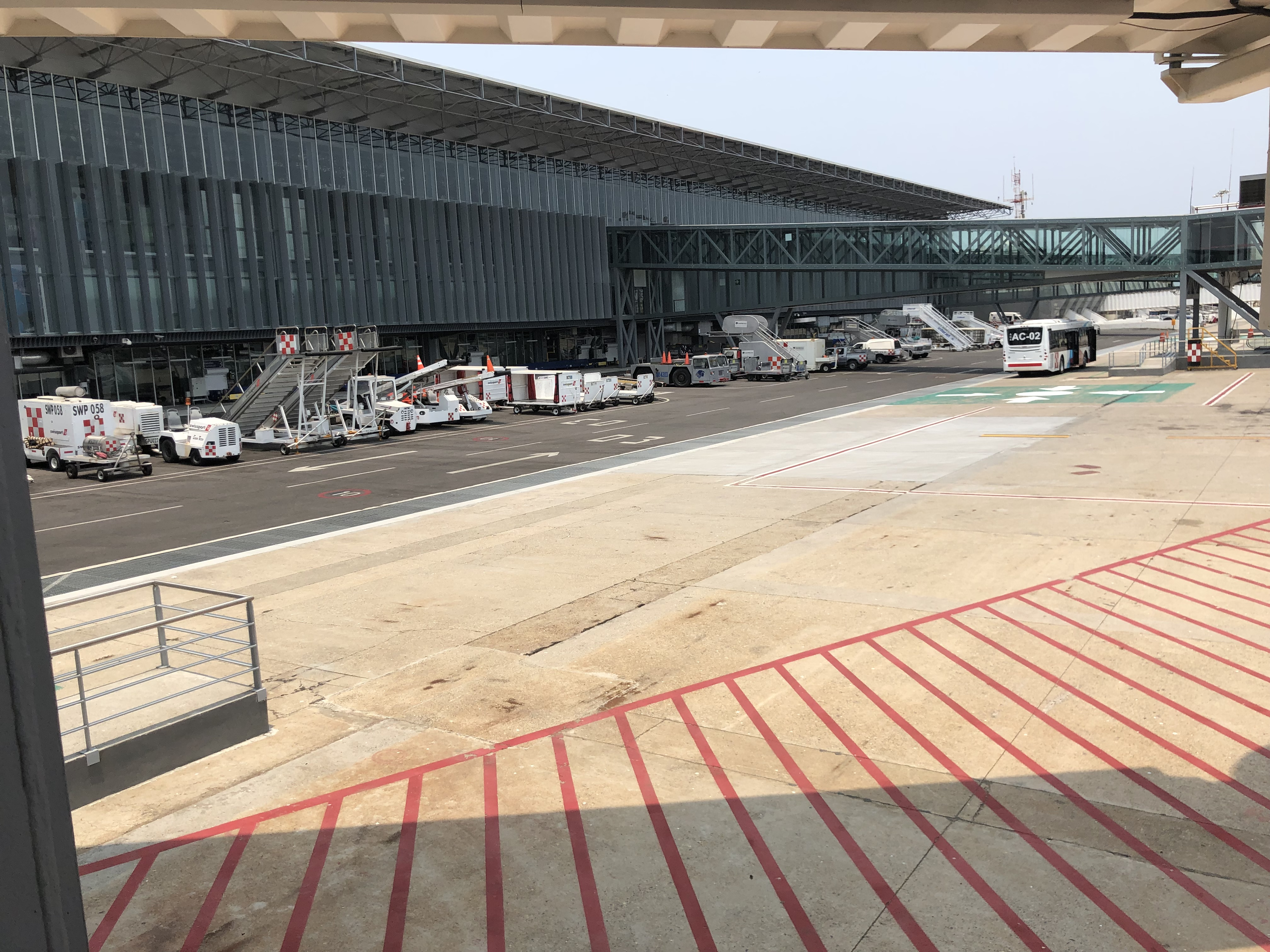 Aeropuerto Acapulco